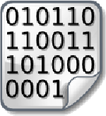 Logo of (Pastebin)